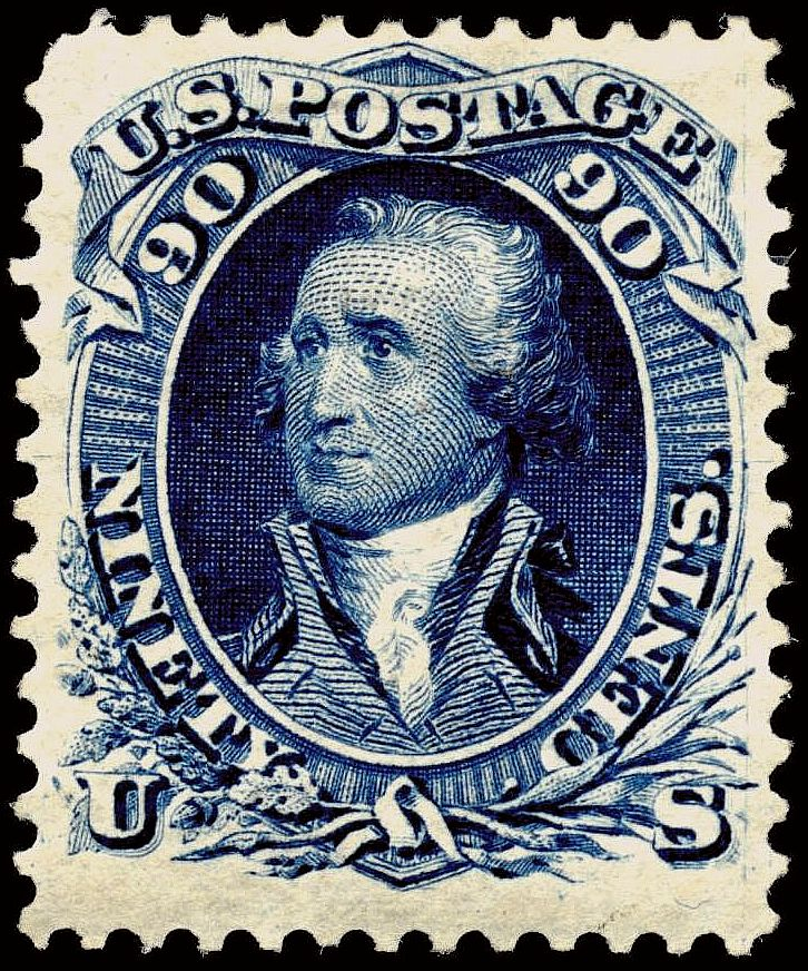 US Postage stamp: General Washington, 1861 Issue, 90c